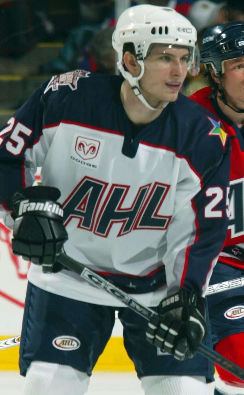 Cropped photo of hockey player Tomáš Surový.